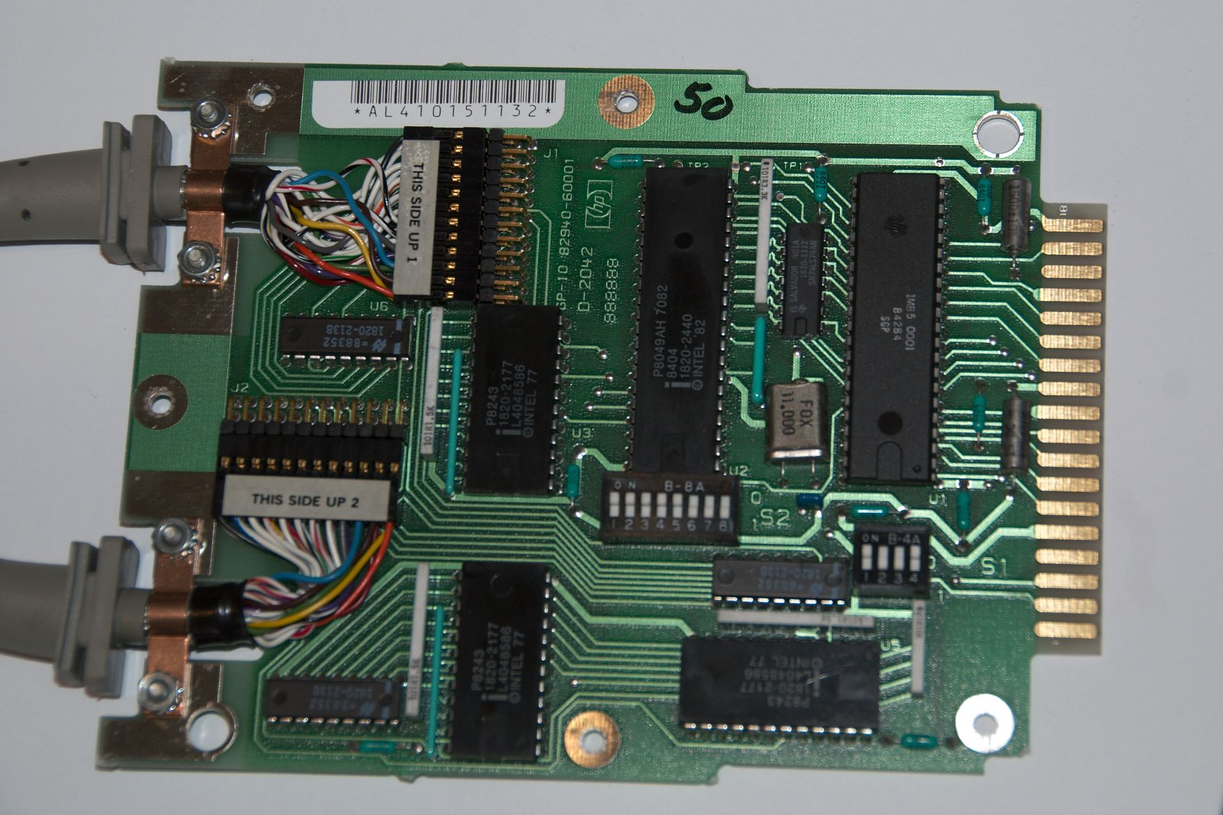 Circuit board of a Hewlett-Packard 82940A GPIO Interface for Series 80 desktop computers (1980s). The rightmost integrated circuit is the proprietary bus interface chip, to its left an Intel 8049 microcontroller can be seen. The Interface's internal address ("select code") can be set using the DIP switches.